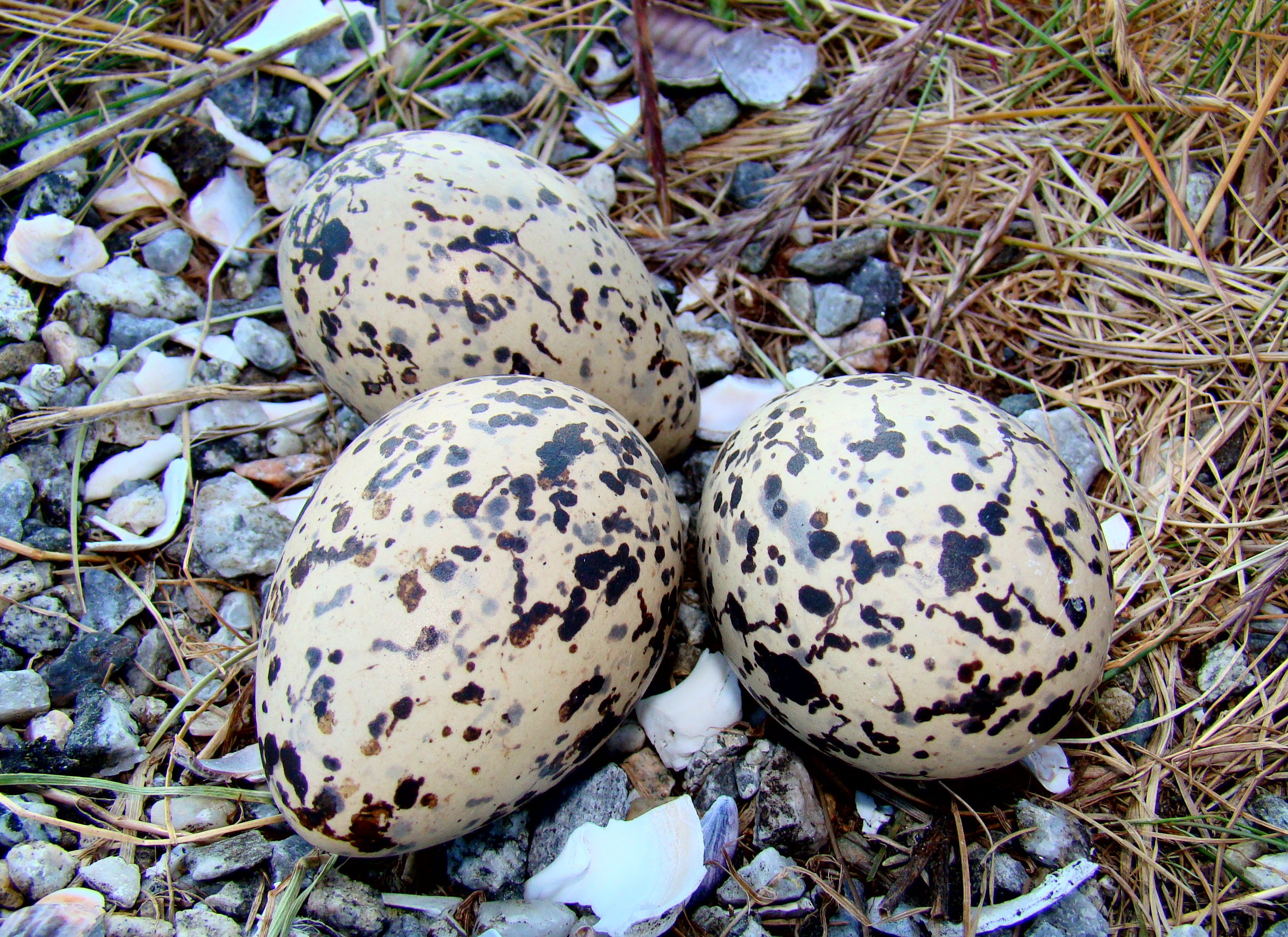 Eggs in a nest belonging to a pair of Eurasian Oystercatchers, Haematopus ostralegus, photographed near Brønnøysund in Northern Norway.